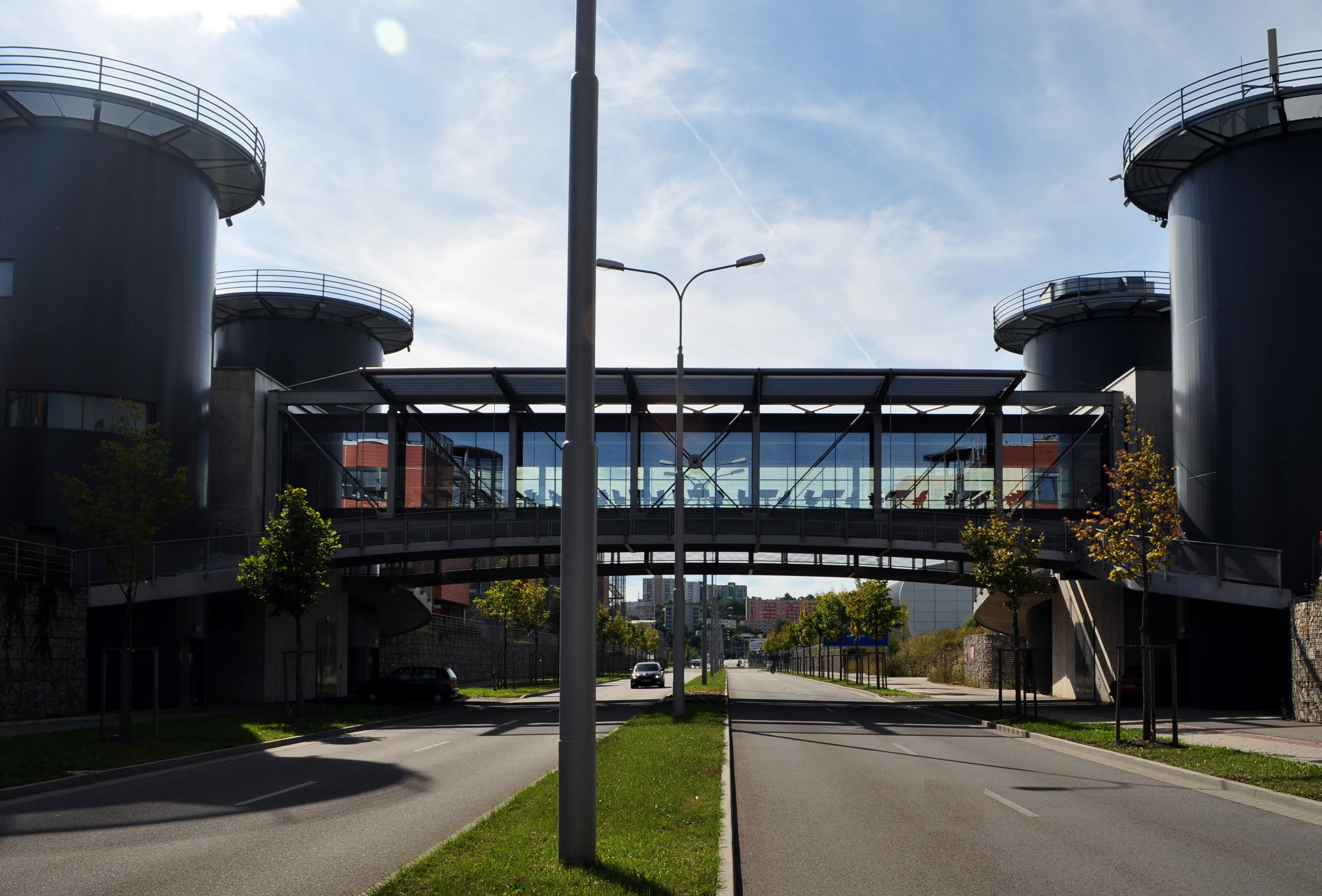 Masaryk University Campus